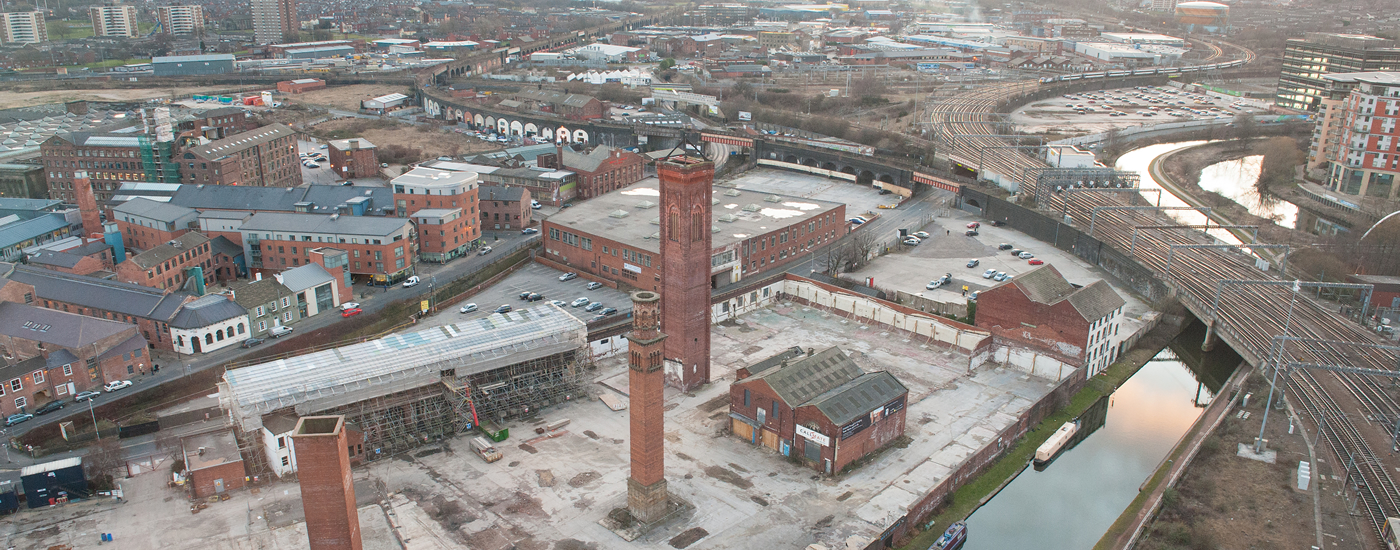 Holbeck Viaduct (black viaduct) in Holbeck, Leeds